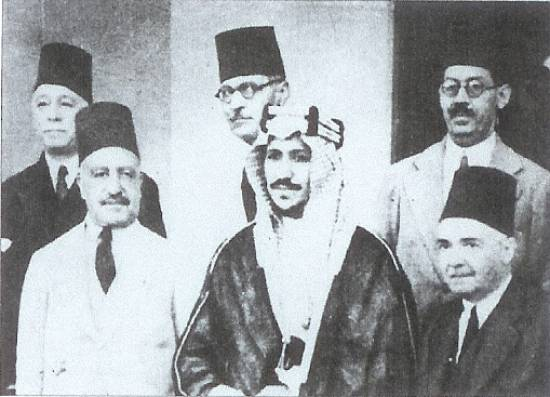 Talaat Harb and King Saud in Cairo 1920